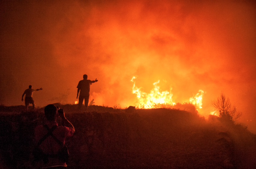 Fire in Baiona, August 2006